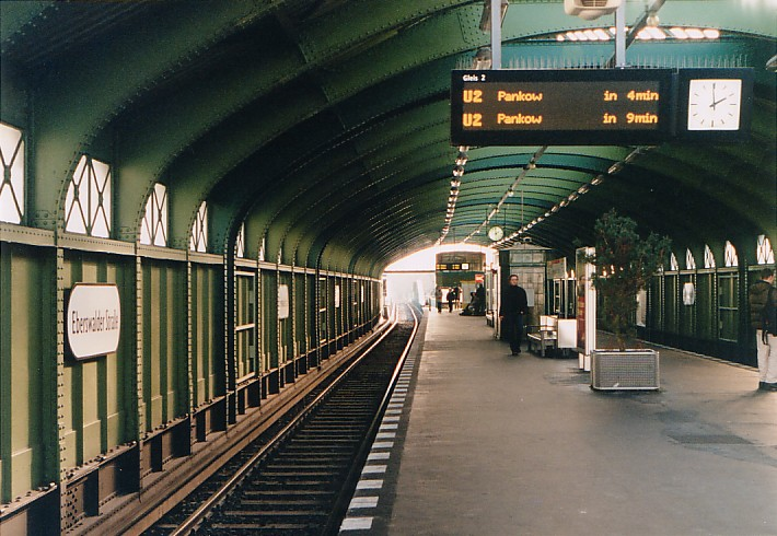 Berlin subway station Eberswalder Straße, line U2